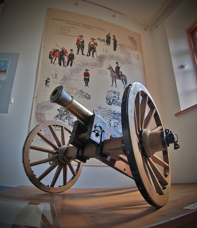 Kuznetsk fortress (Novokuznetsk, Kemerovo region, Russia)